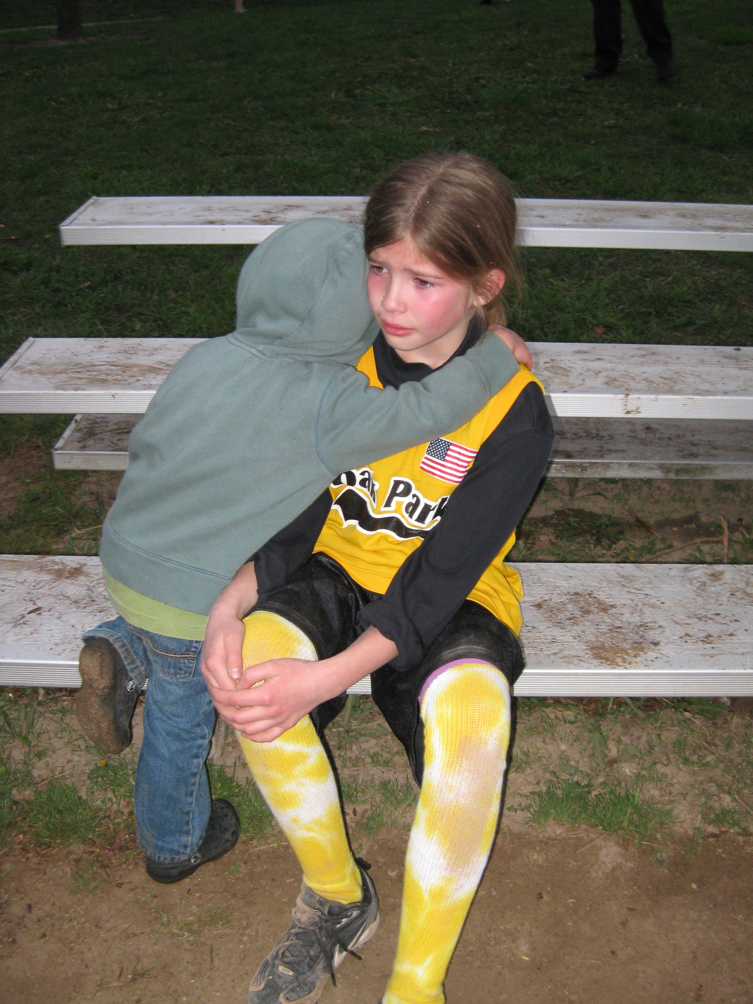 Meaghan got hurt sliding (sort of) into home. Finn gave her a hug. She was safe.